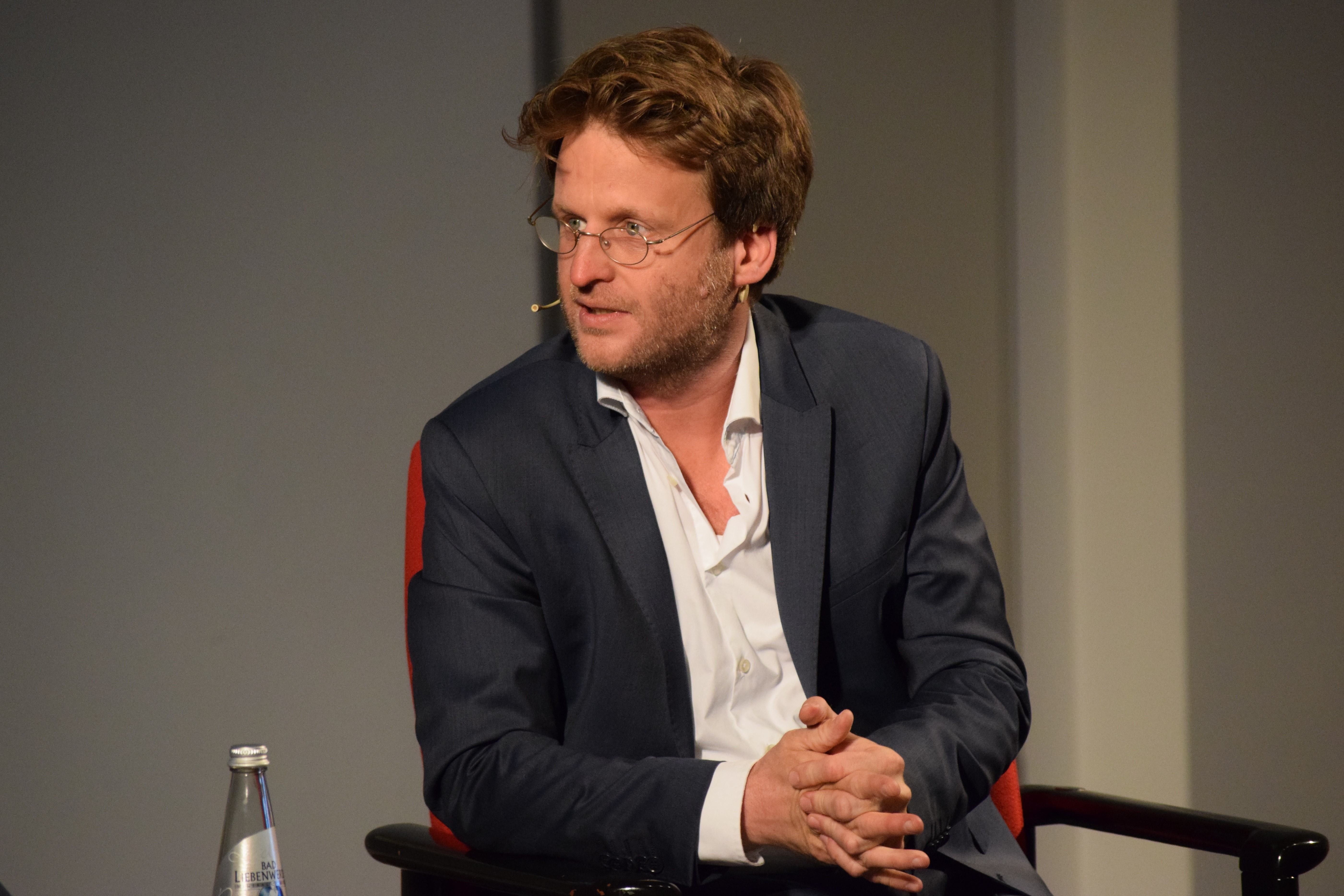 Conference "Referendum in Catalonia: one chance for Europe?". The german author Michael Ebmeyer in conversation with Artur Mas, 129th president of Catalonia. Organized by: ANC Germany. Tuesday, 27 June 2017 at 18.30 o'clock at the culral center Urania, Berlin. (An der Urania 17, 10787 Berlin).